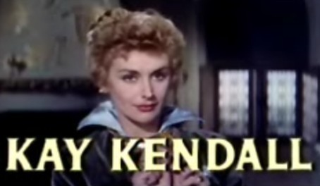 Cropped screenshot of Kay Kendall from the trailer for The Adventures of Quentin Durward